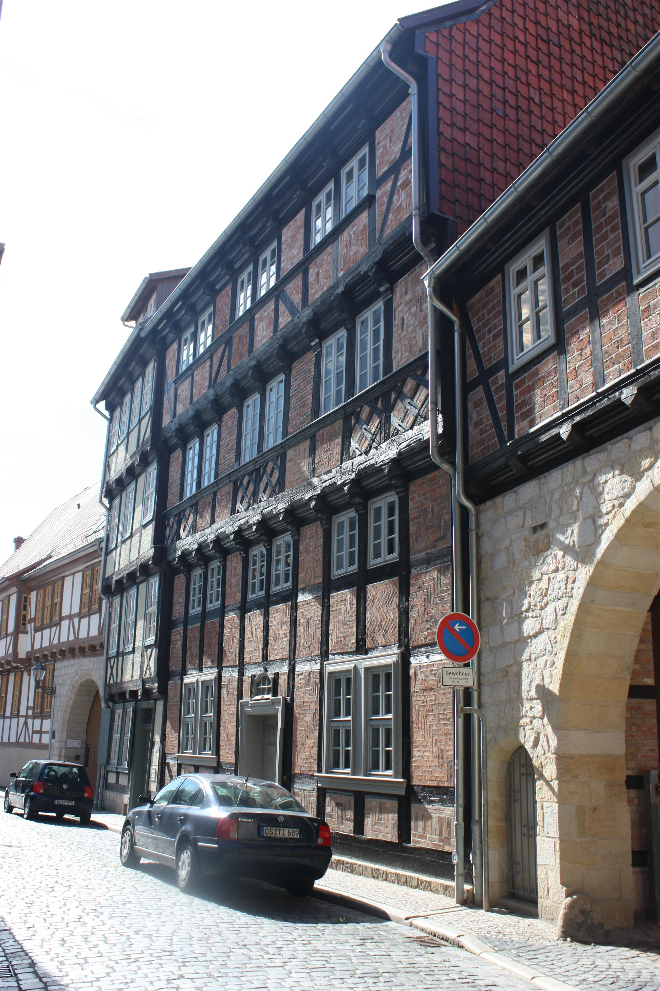 This is a photograph of an architectural monument.It is on the list of cultural monuments of Quedlinburg Quedlinburg Lange Gasse